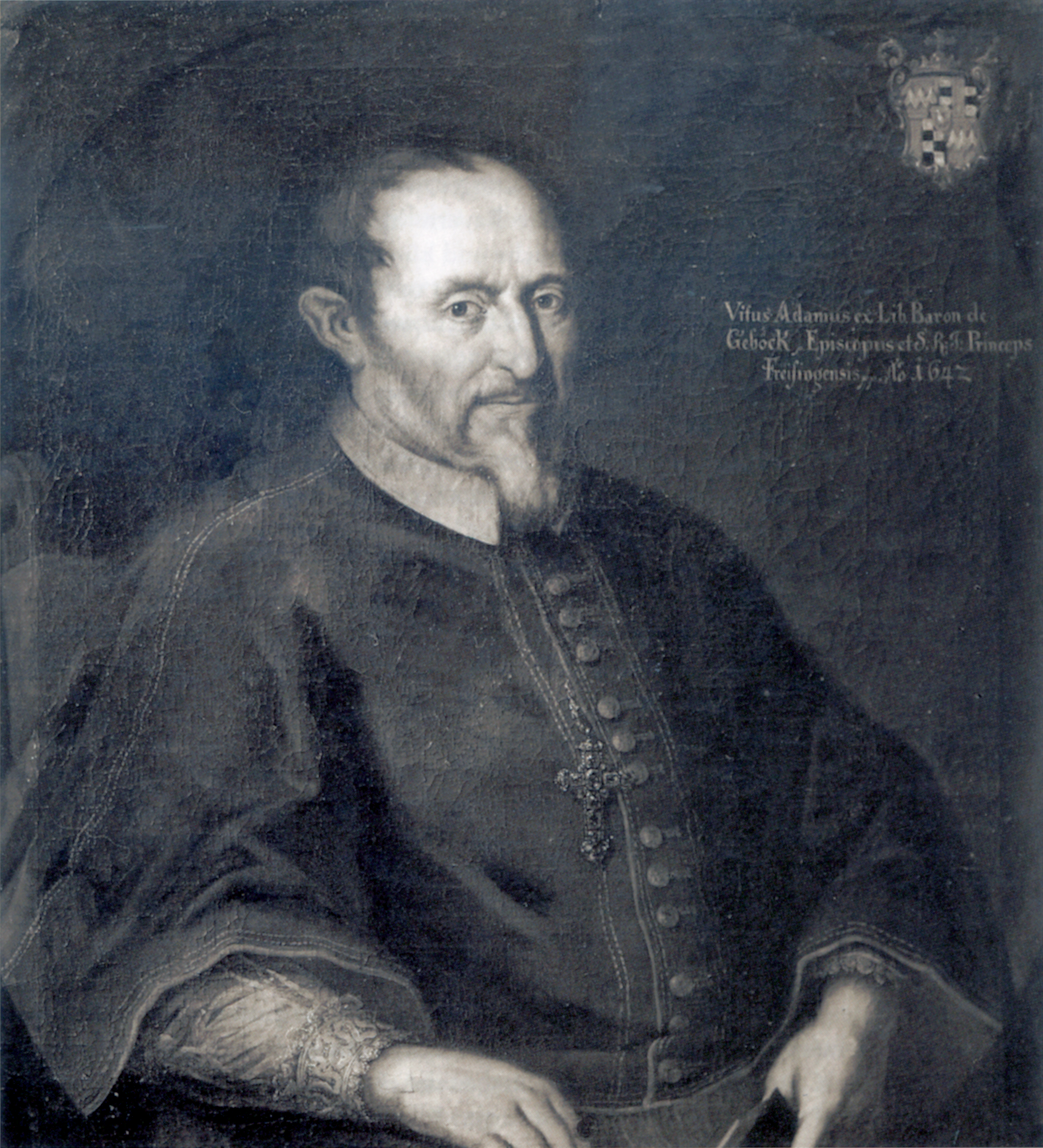 Bishop Veit Adam von Gepeckh (Roman Catholic Archdiocese of Munich and Freising)